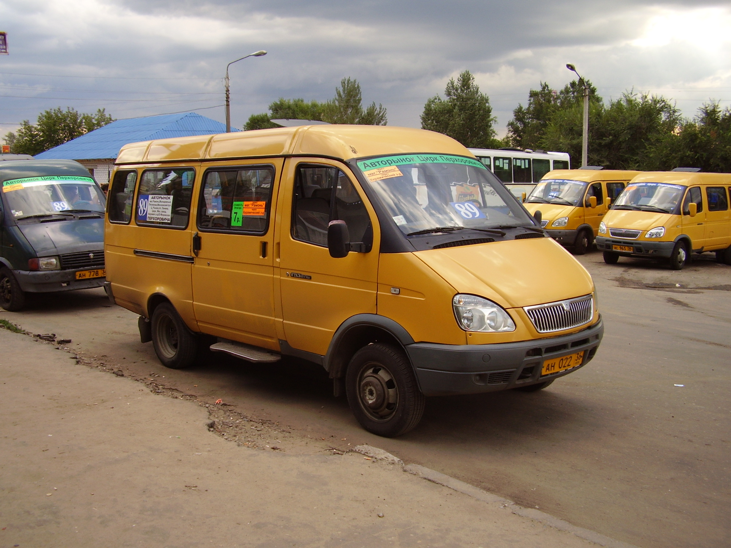 GAZelle bus (reg. AH 022 36) in Russia.